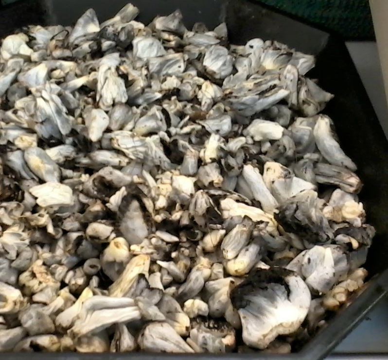 mushroom